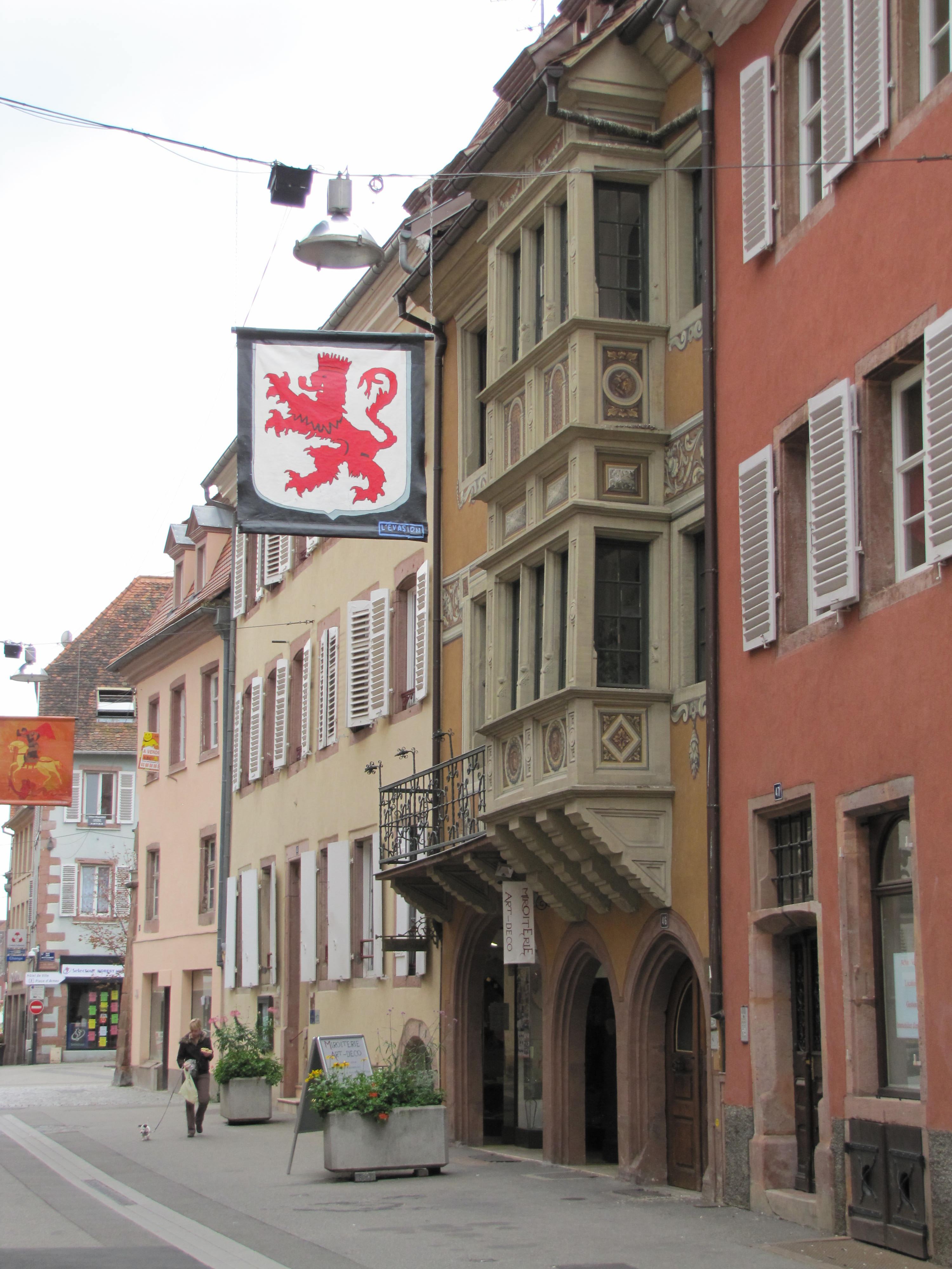 Alsace, Bas-Rhin, Sélestat, Maison "A la Bourse" (XVIe), 46 rue des Chevaliers: It is indexed in the Base Mérimée, a database of architectural heritage maintained by the French Ministry of Culture, under the references PA00084992 and IA00124628 .